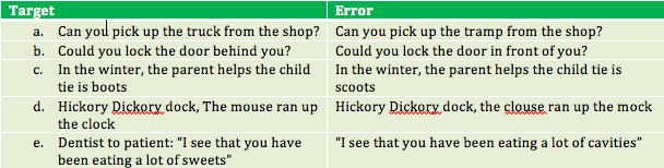 examples of speech errors for connectionist models of speech production exercise